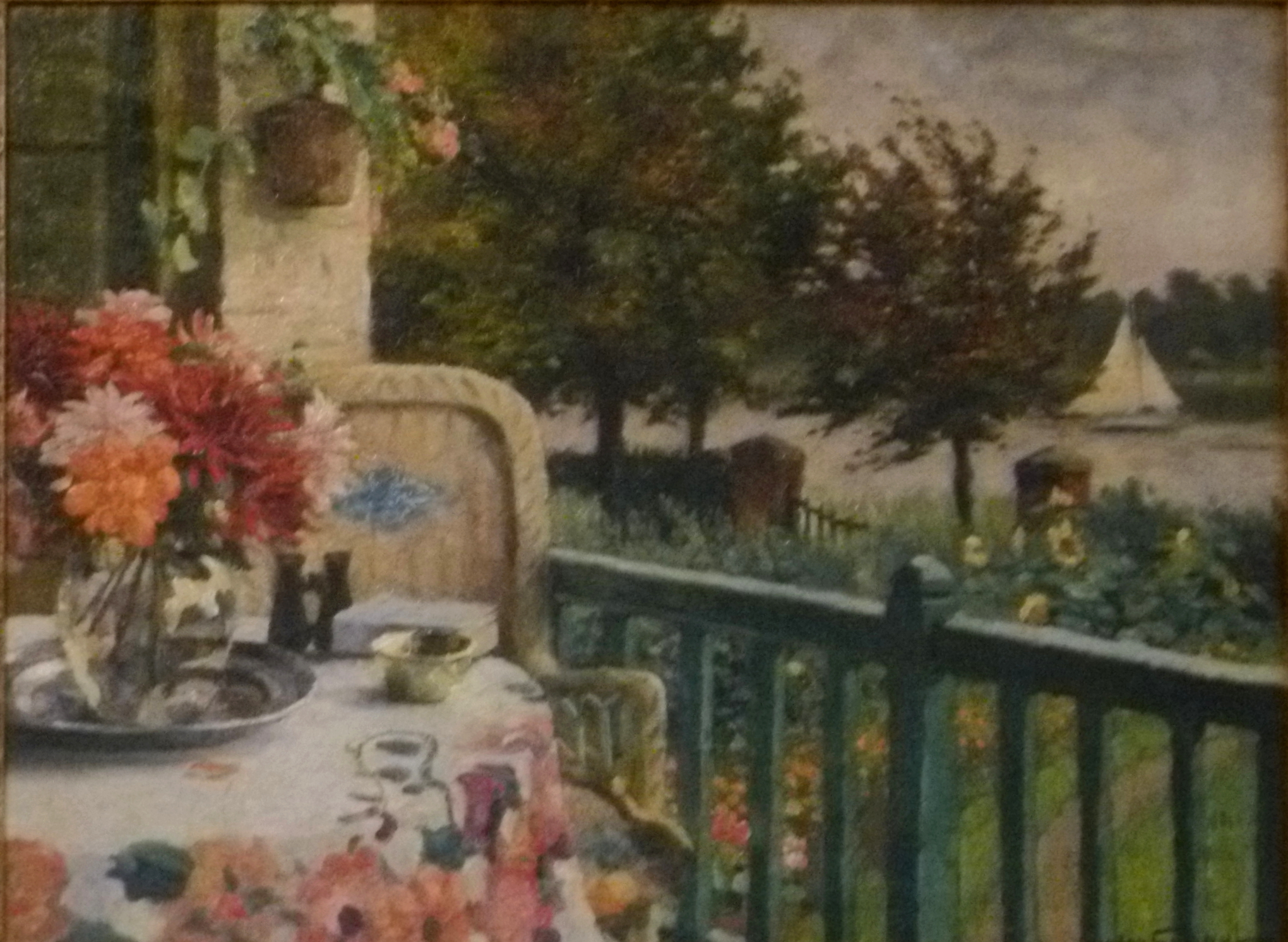 "Sunlit Terrace by the Lake" oil on canvas by Victor Gilsoul